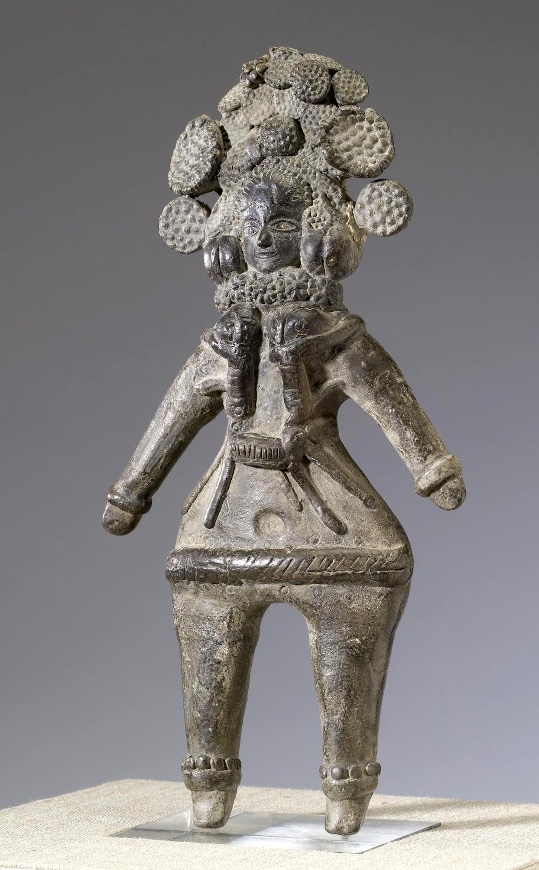 Mathura Votive Figurine - Walters 25249